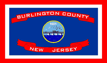 Burlington County, New Jersey Flag